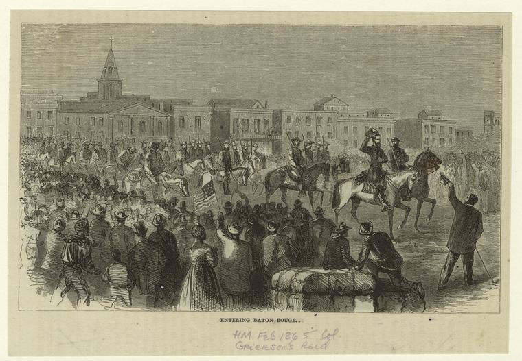 "Entering Baton Rouge". Shows "Col. Grierson's Raid" party Union troops entering the Louisiana city in the American Civil War.